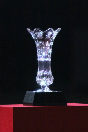 Cup of 2009 ISU World Team Trophy in Figure Skating